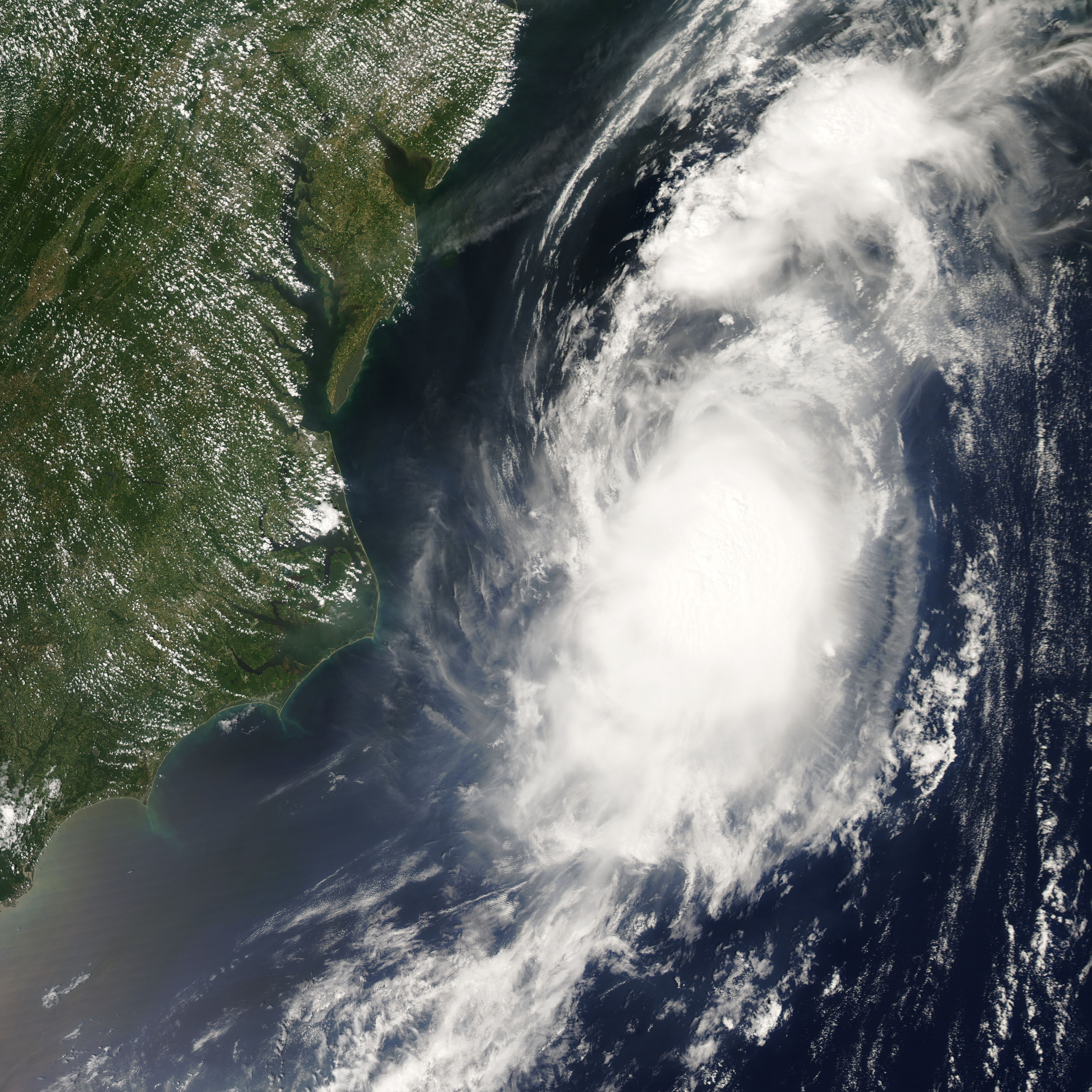 This image is a composite of two Terra images from